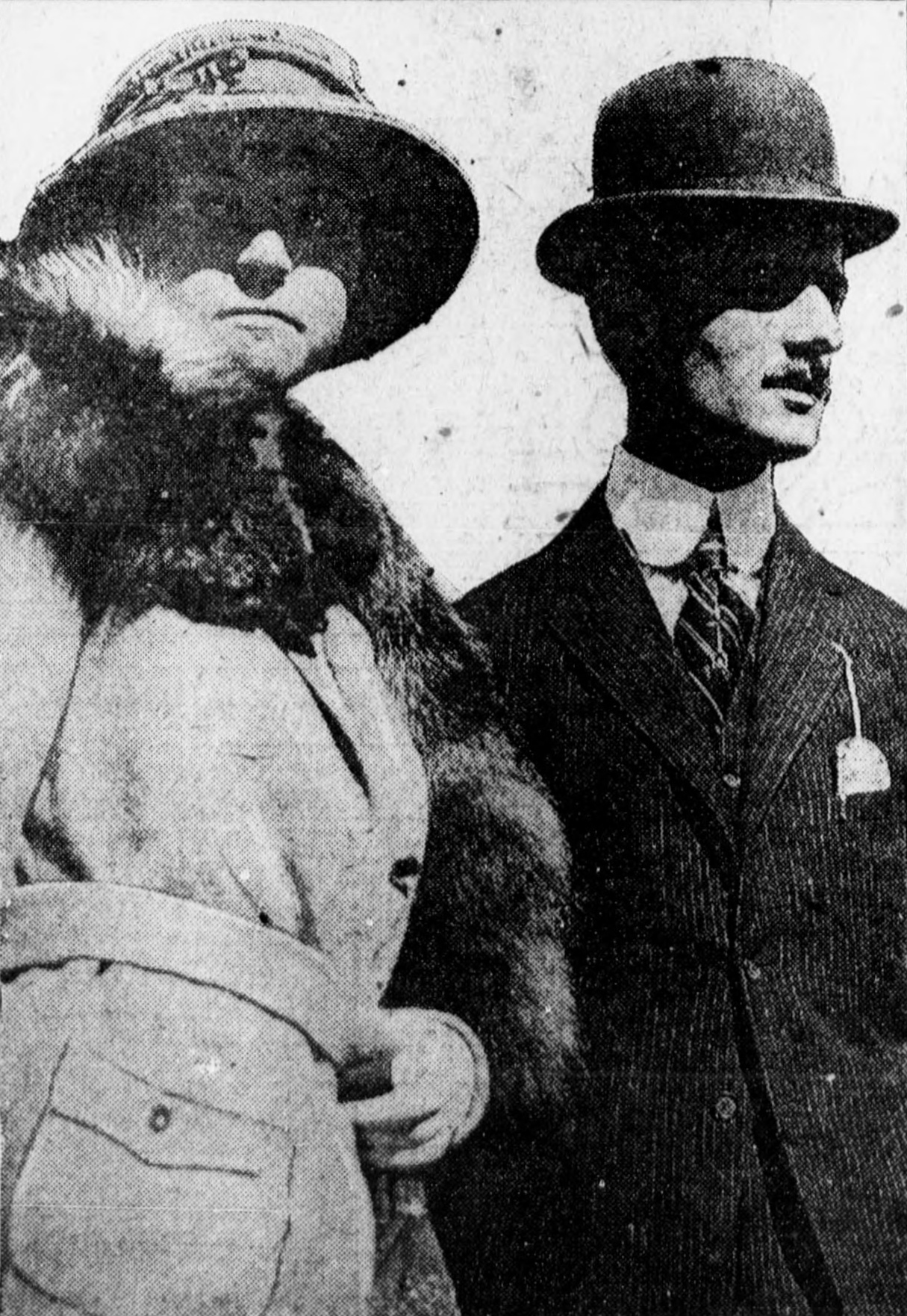 Mr. and Mrs William du Pont Jr., of Cherry Knoll, near Newton Square, PA, keenly interested in the fall's equine exhibition and meets, clicked by the camera at a recent huntsmen's meeting.